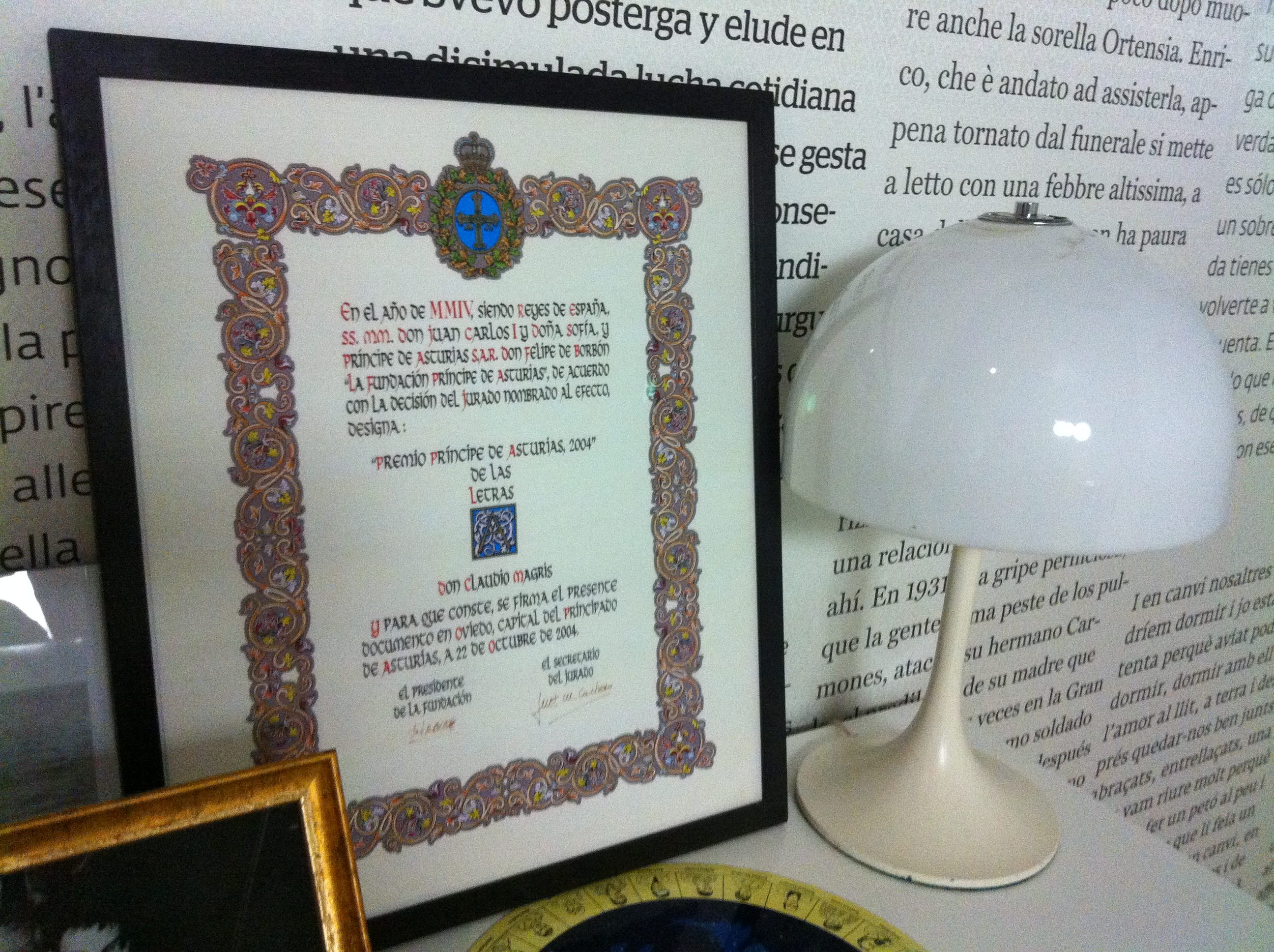 La Trieste de Magris. Exhibit about the Trieste of Claudio Magris, shown at CCCB during 2011